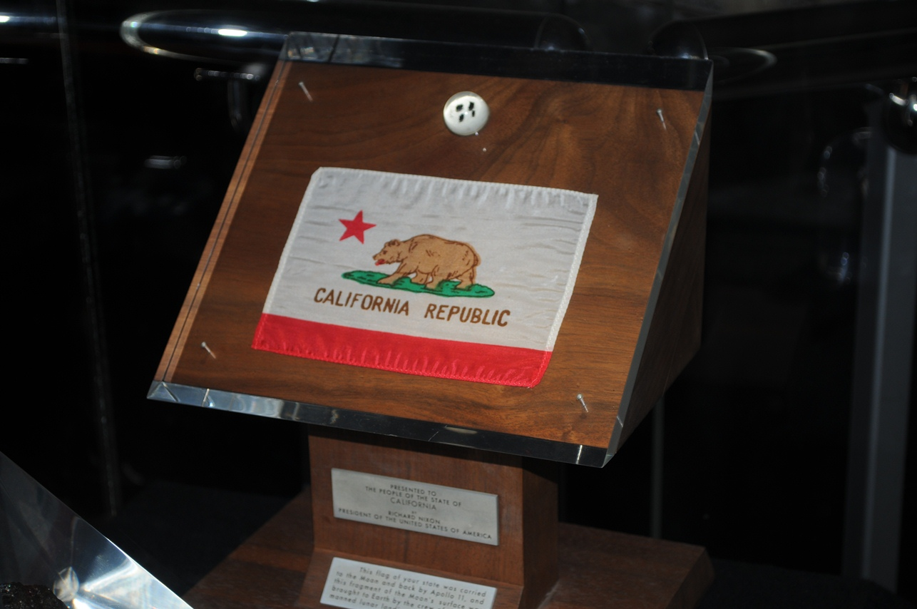 California Goodwill moon rock from Apollo 11. San Diego Air and Space Museum Archive